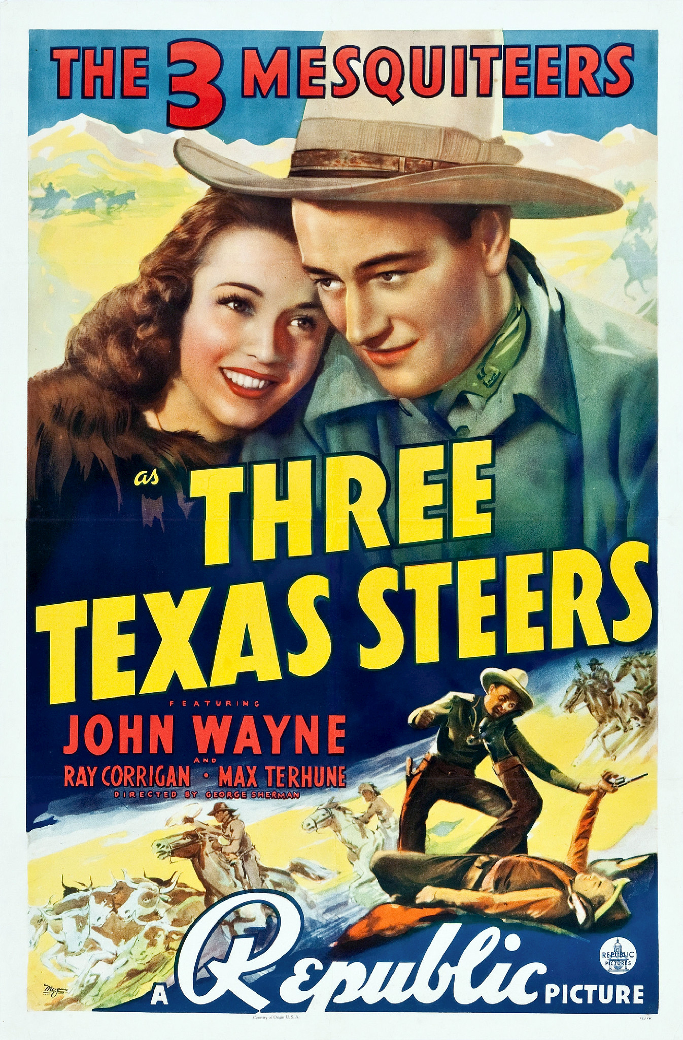 Poster for the 1939 film Three Texas Steers. The item has no copyright marks on it as can be seen at links and original upload. At bottom left is a logo for Morgan Litho Co, Cleveland, O.-they printed the poster. At bottom center is Country of origin USA. At bottom right is a logo for Republic Pictures and 16114.